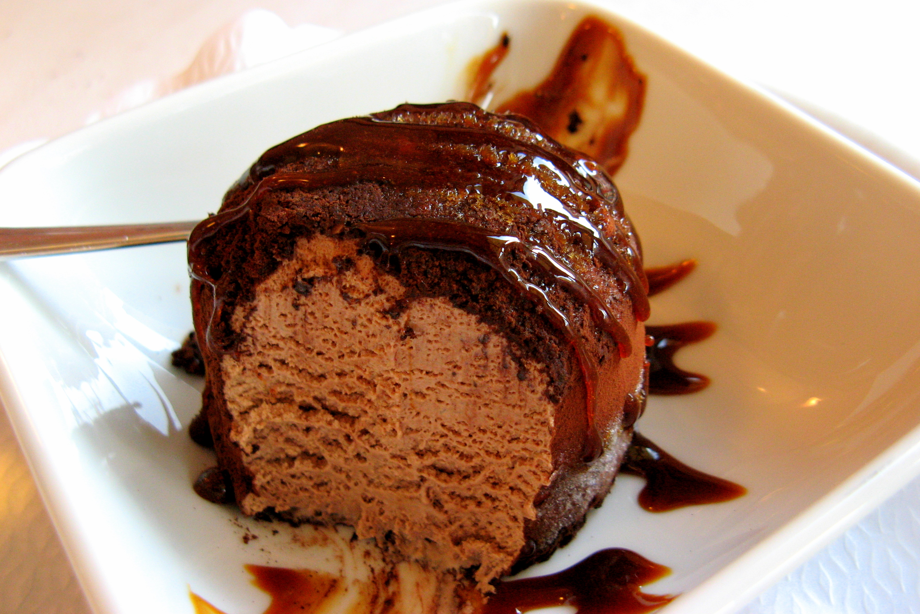 Chocolate gelato with a core of vanilla gelato, and covered in chocolate and syrup. Our delicious dessert at Ai Pescatori in Burano.